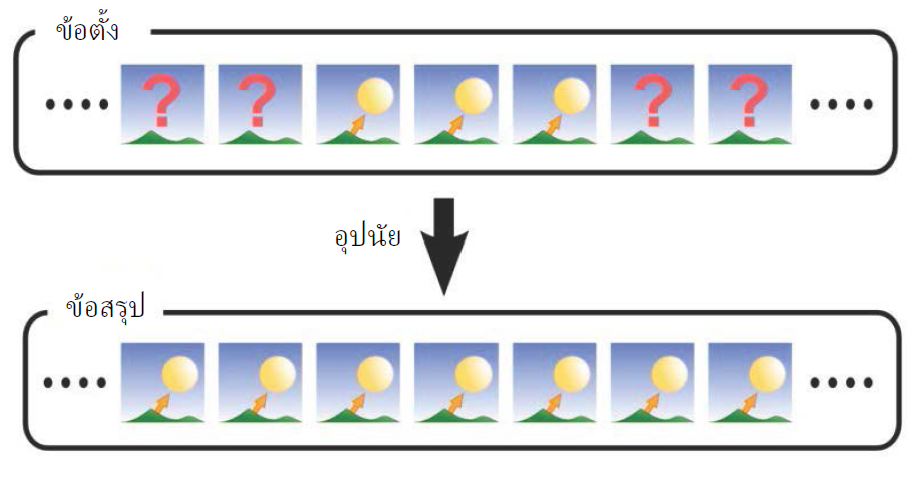 example of Enumerative induction in Thai. Premises are "Sun rose in the east today" "Sun rose in the east yesterday" "Sun rose in the east day before yesterday". Conclusion is "Sun rises in the east". this is enumerative induction. Original picture was from User:Was a bee. This may be considered a parody of original work, which was released into the public domain. Can be taken down if requested by original work's author.